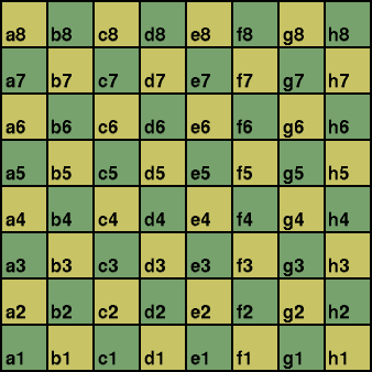 Drawing by LDC, made with XBoard and GIMP, released to public domain.